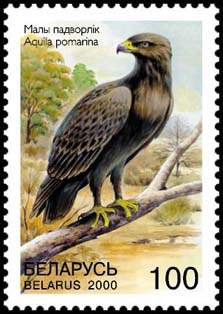 Stamp of Belarus